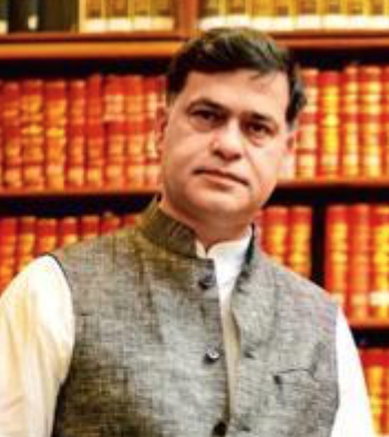 This is a picture of Mr. Sidharth Luthra.